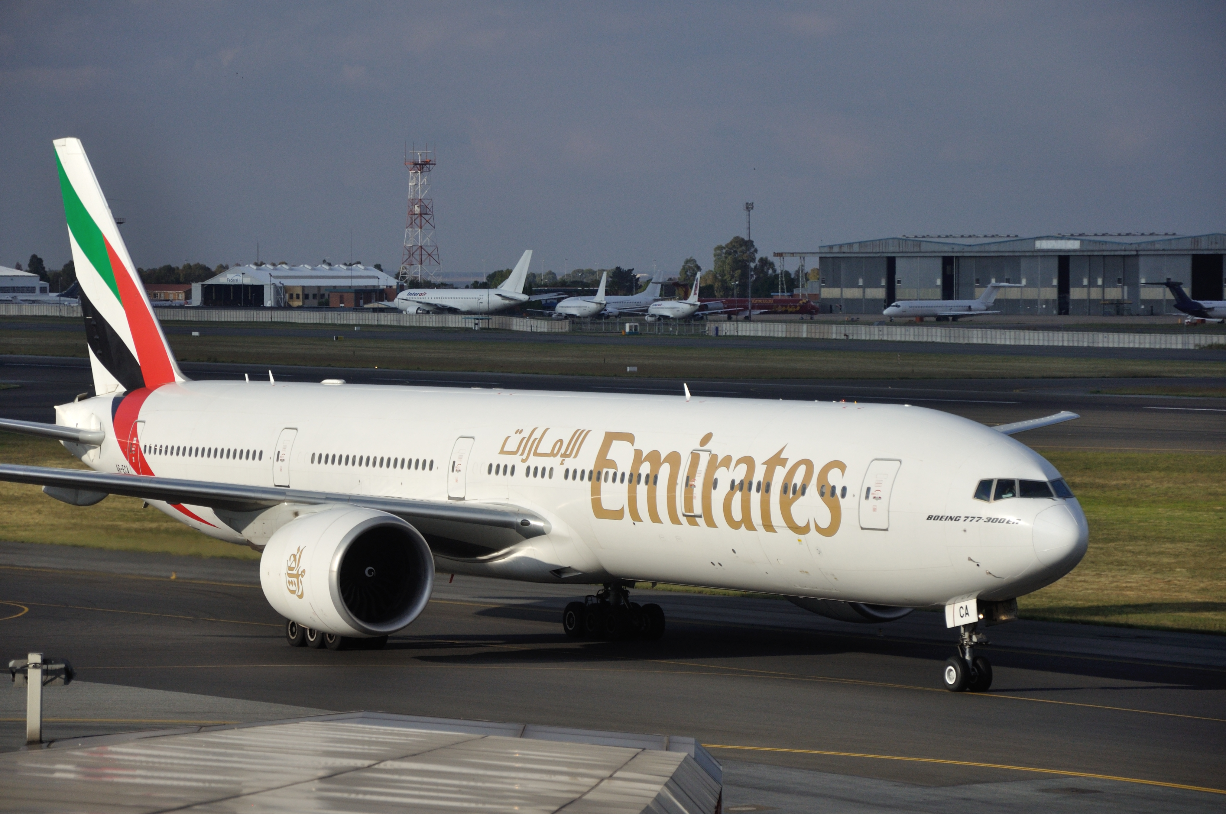 South Africa, spotting at O.R. Tambo International Airport